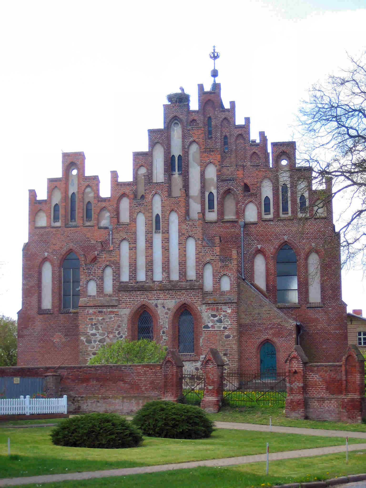 Eastern view of church in Linum, Fehrbellin municipality, Ostprignitz-Ruppin district, Brandenburg state, Germany Object location52° 45′ 26.86″ N, 12° 52′ 57.16″ E